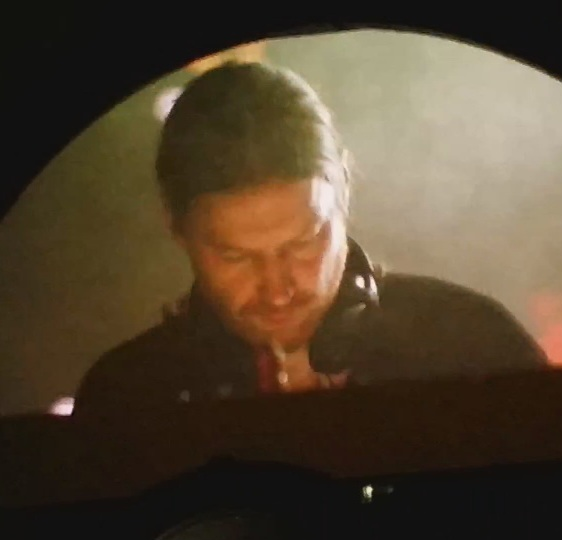 RDJ performing in Houston 2016.